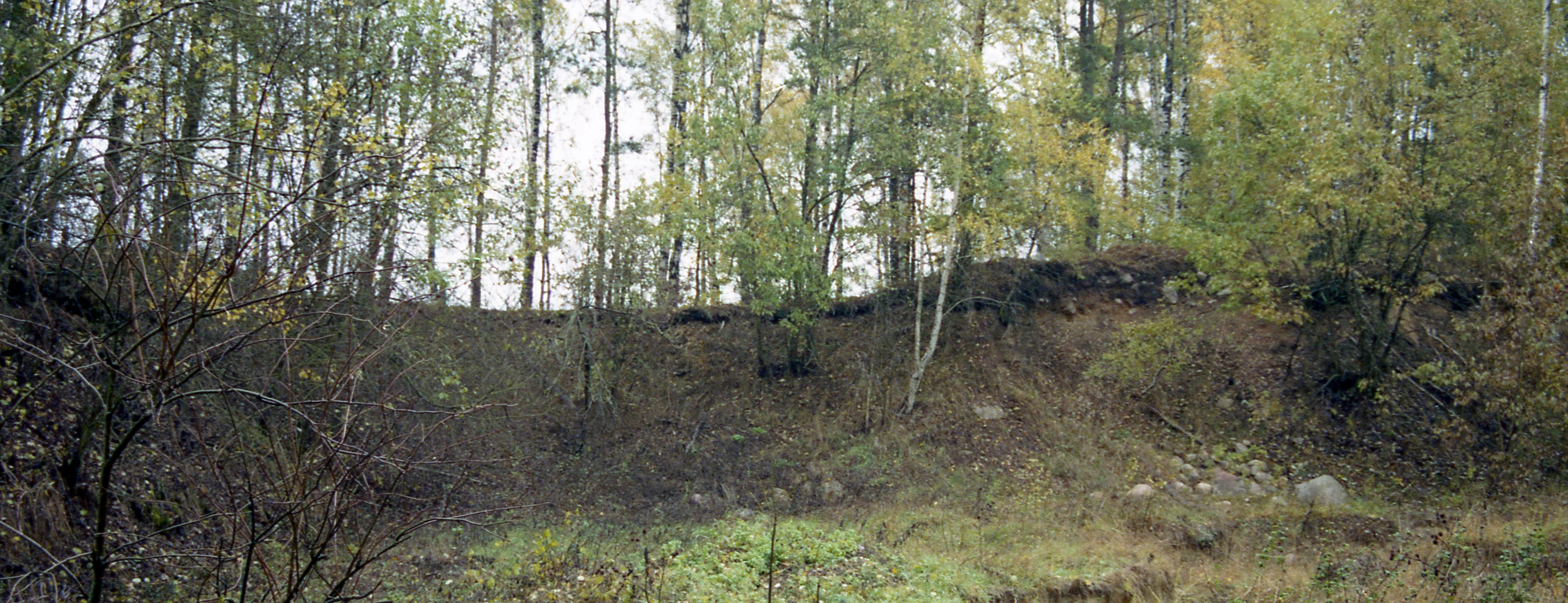 Senkai hillfort, Kretinga district, Lithuania